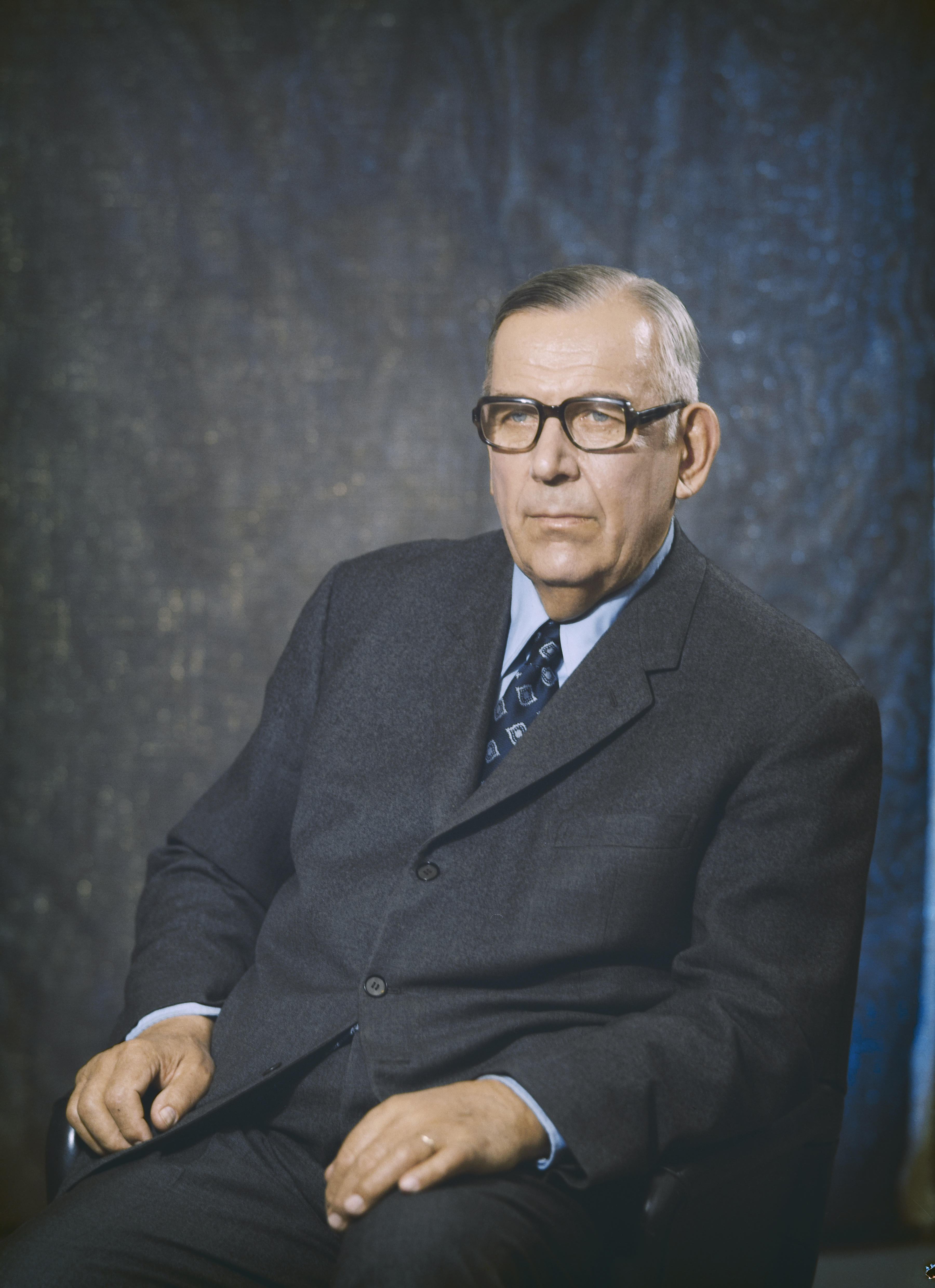 Photograph of the Finnish forester Nils Osara (1903–1990)